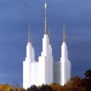 Cropped version of Image:DCTemple.jpg - which is PD - any rights from cropping are also dedicated by me to the public